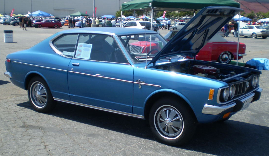 US market Toyota Corona Coupé